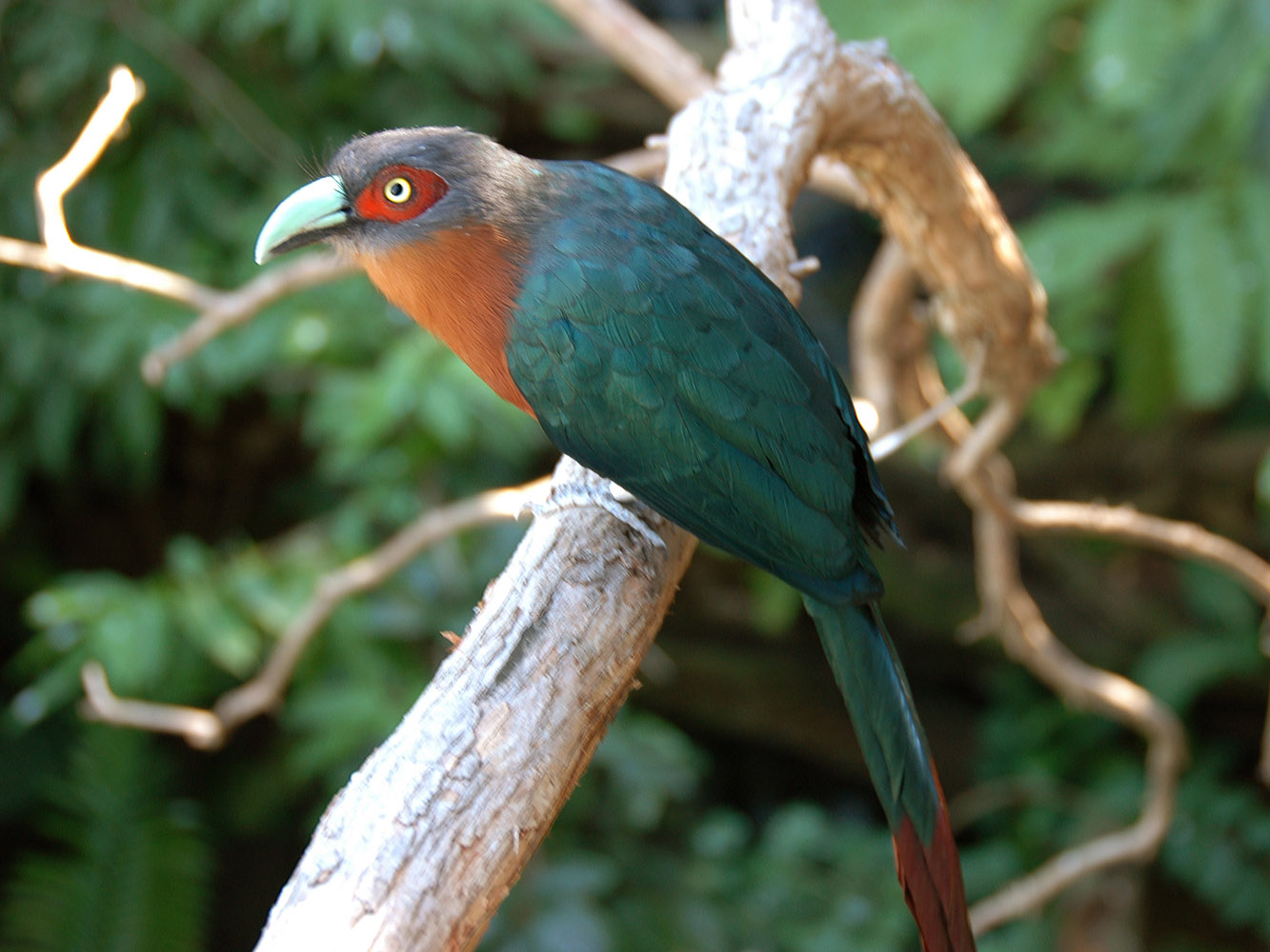 Phaenicophaeus curvirostris at the San Diego Zoo. A very curious and friendly bird. I think it thought there was another bird of its species in my camera (it saw its reflection).